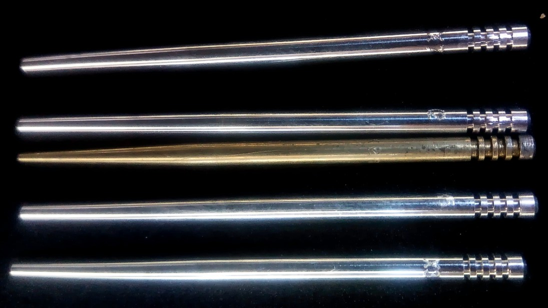 Jet needle for Dell'Orto carburetors, produced in various materials, aluminum replica of the versions, the original brass spiked Dell'Orto (center)